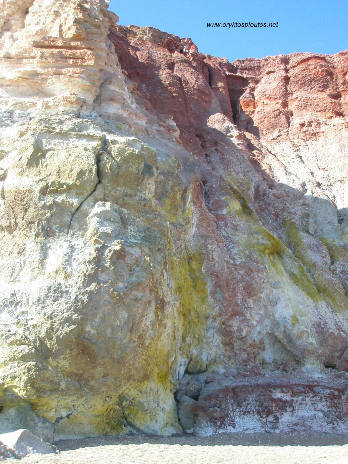 Hydrothermally altered rock at the Paleochori cliffs Milos, Greece.